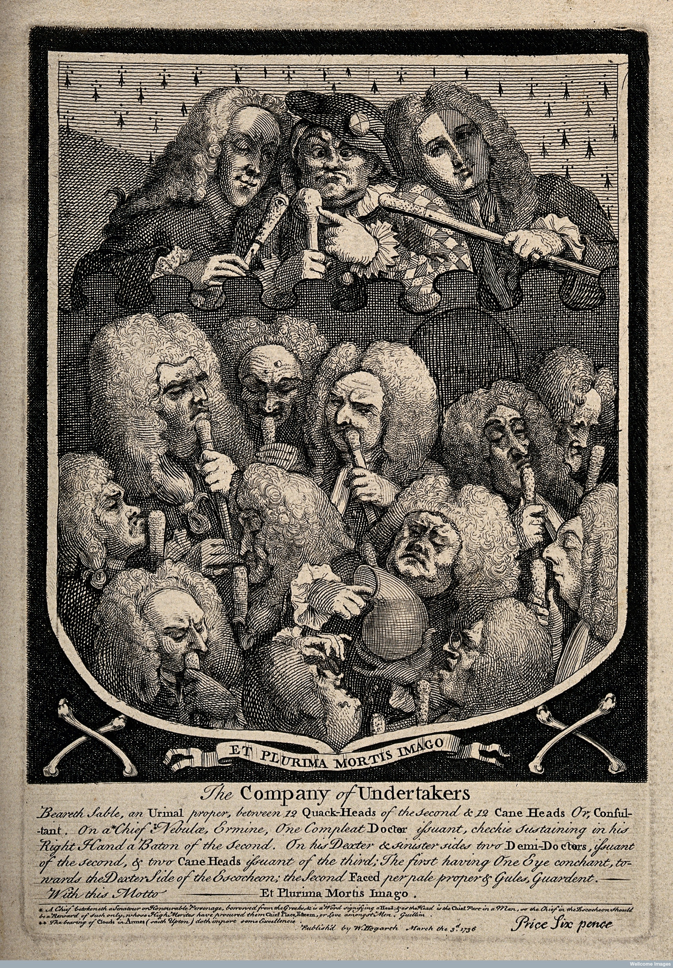 A shield containing a group portrait of various doctors and quacks, including Mrs Mapp, Dr. Joshua Ward and John Taylor. Etching by W. Hogarth, 1736, after himself.